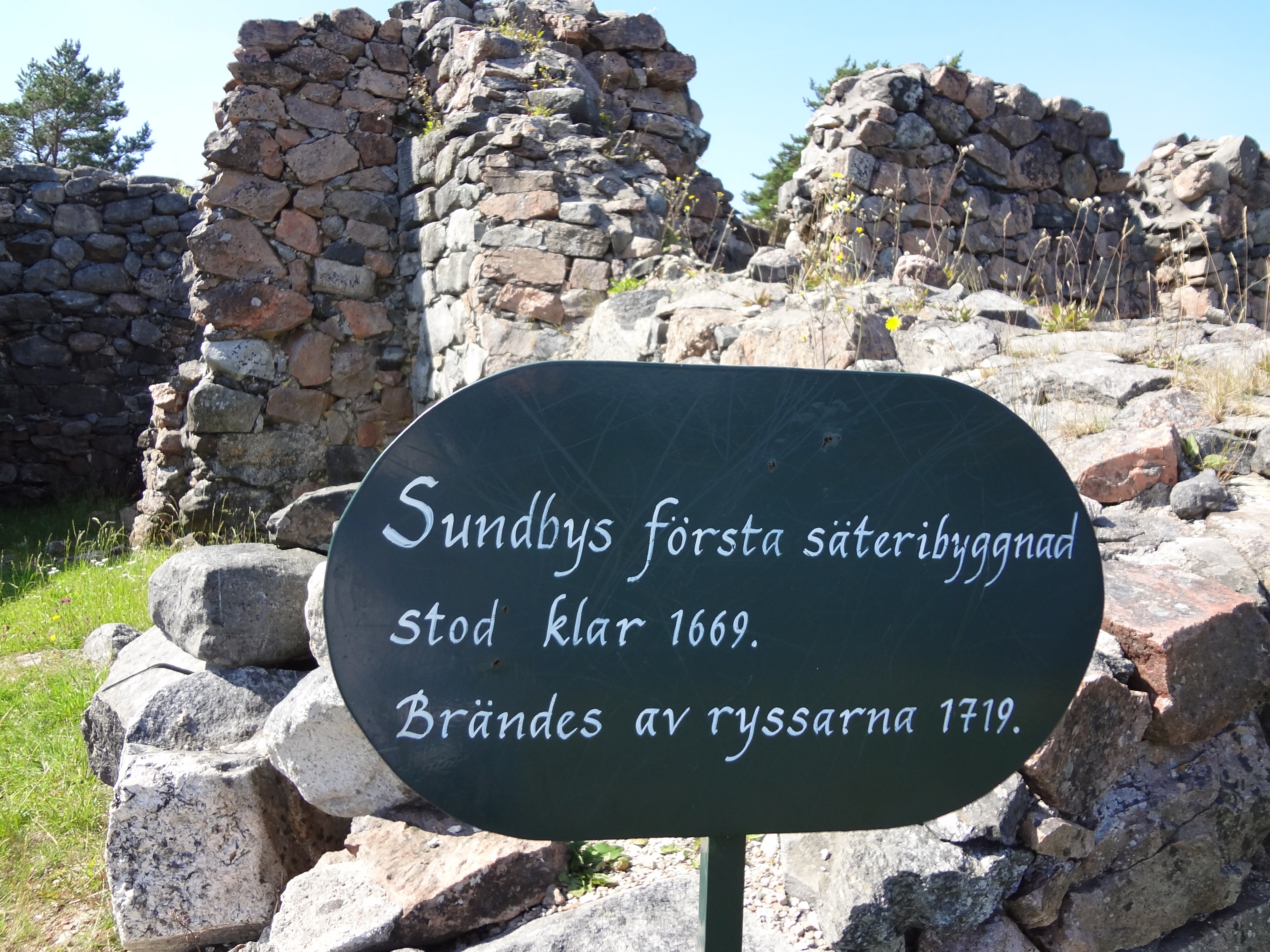 Sign at the ruins of the old house of Sundby gård in Ornö, Stockholm. 2011.